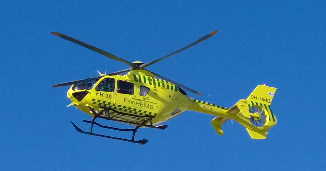 FinnHEMS FH30 (OH-HMQ) departing from TAYS